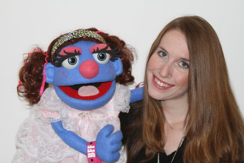 Puppet character Bleeckie and Leslie Madeline Fleming, her puppeteer.